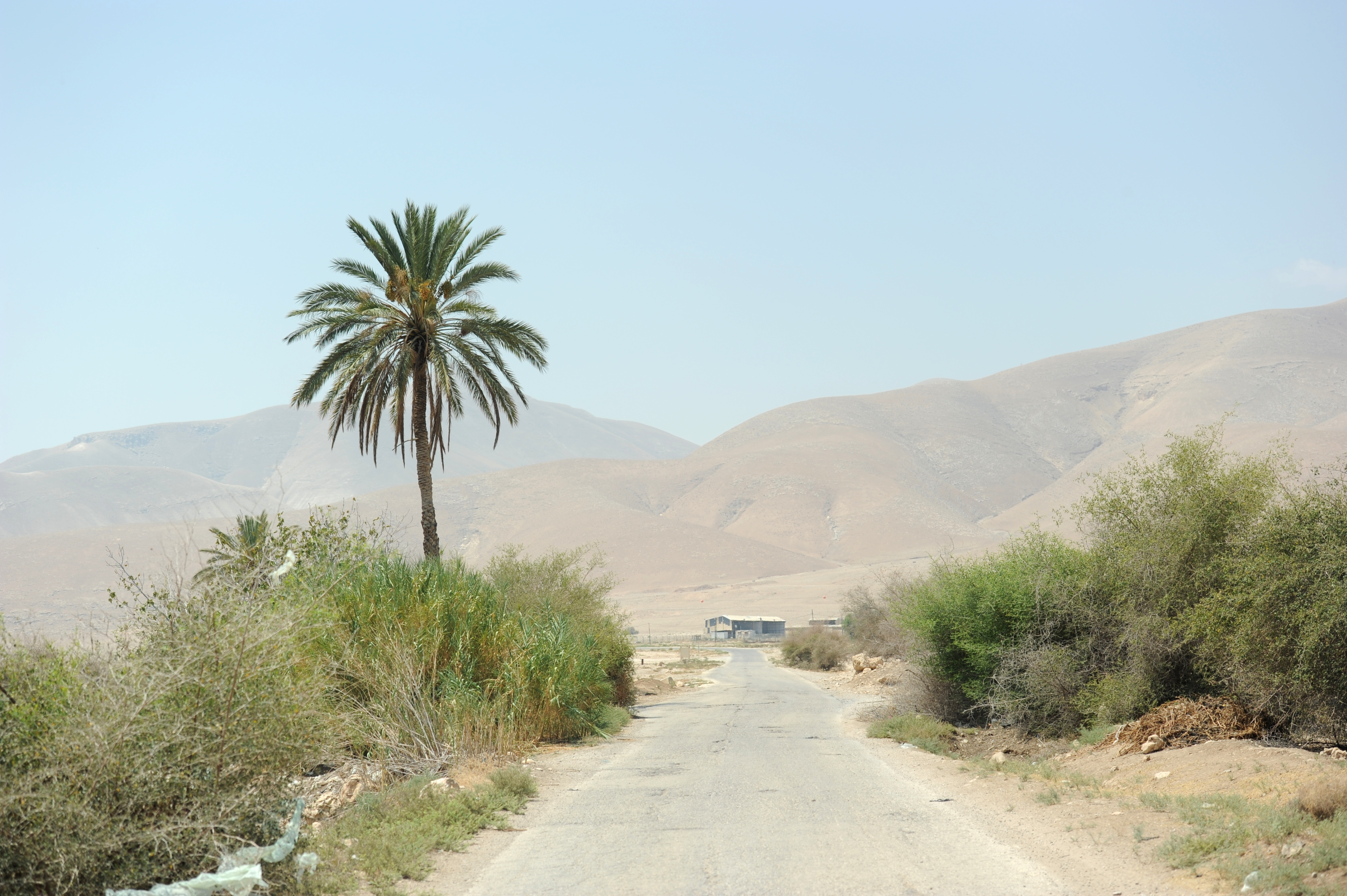 Jordan Valley, West Bank